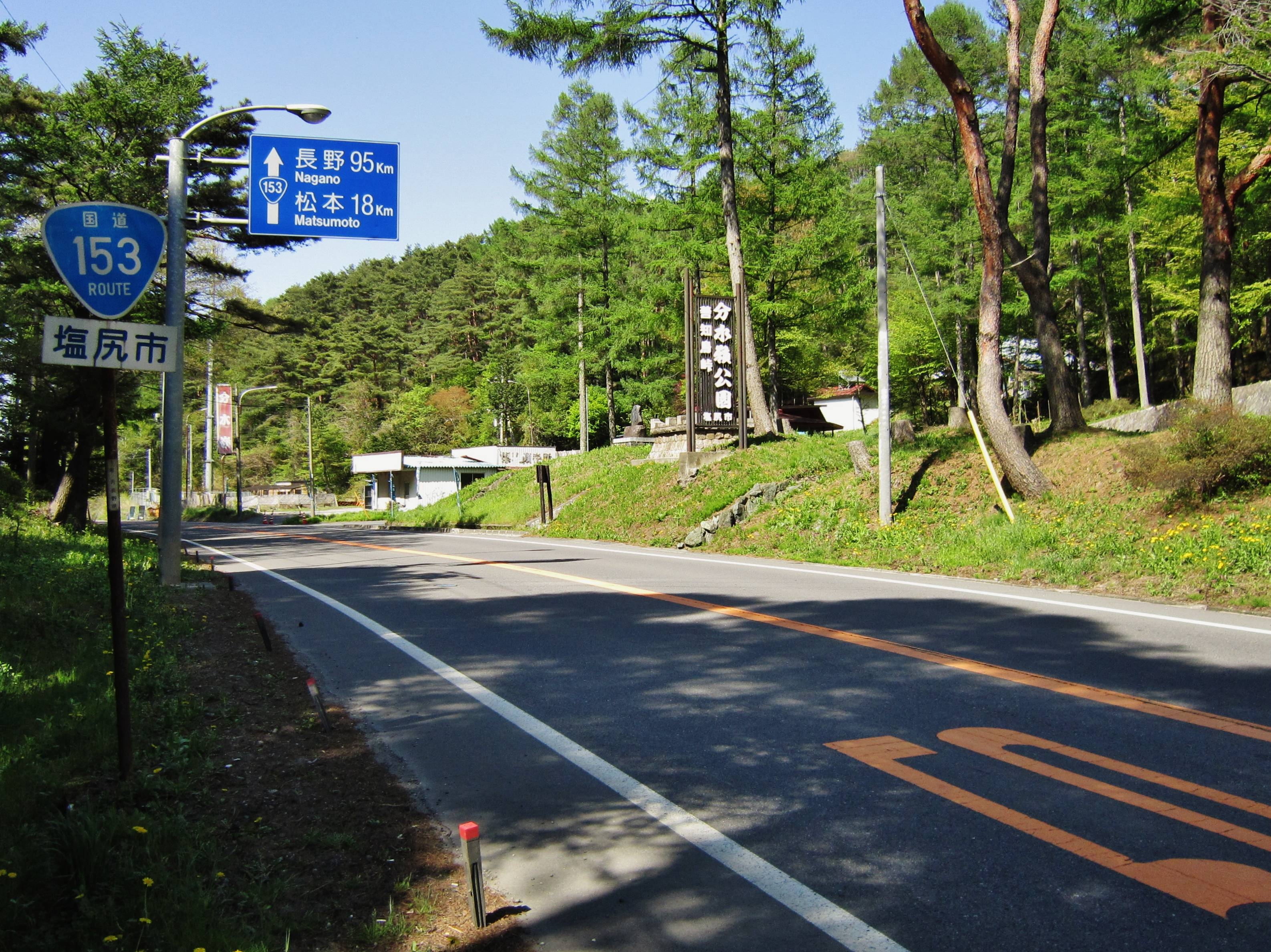 Route 153 Utou Pass.